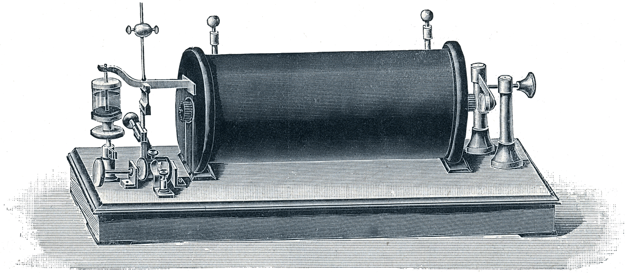 Heinrich Daniel Ruhmkorff's induction coil. The mechanisms at the ends are interrupters, vibrating switches that interrupt the DC current flowing in the primary winding of the coil to create the flux changes necessary to induce high voltage in the secondary winding. This coil has two interrupters; the one at the right end is a common "hammer" interrupter with metal contacts. The one on the left is a type invented by Fizeau that uses a metal needle dipping into mercury, covered by a layer of alcohol to suppress the formation of sparks, resulting in higher voltages.